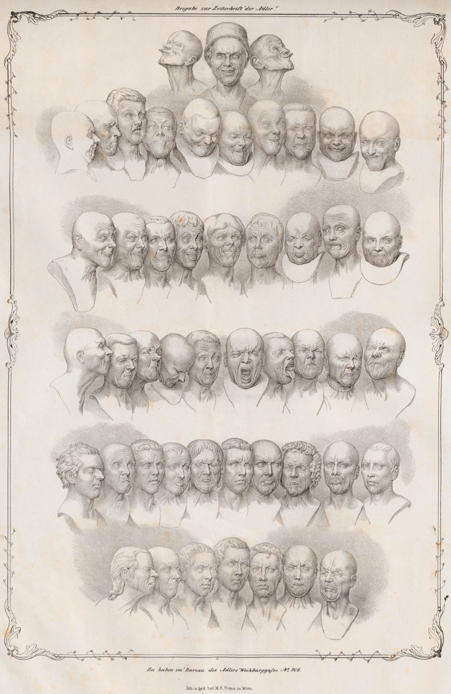 Matthias Rudolph Toma (1792-1869), Messerschmidt’s “Character Heads” (1839, lithograph on paper), Österreichische Nationalbibliothek, Vienna.